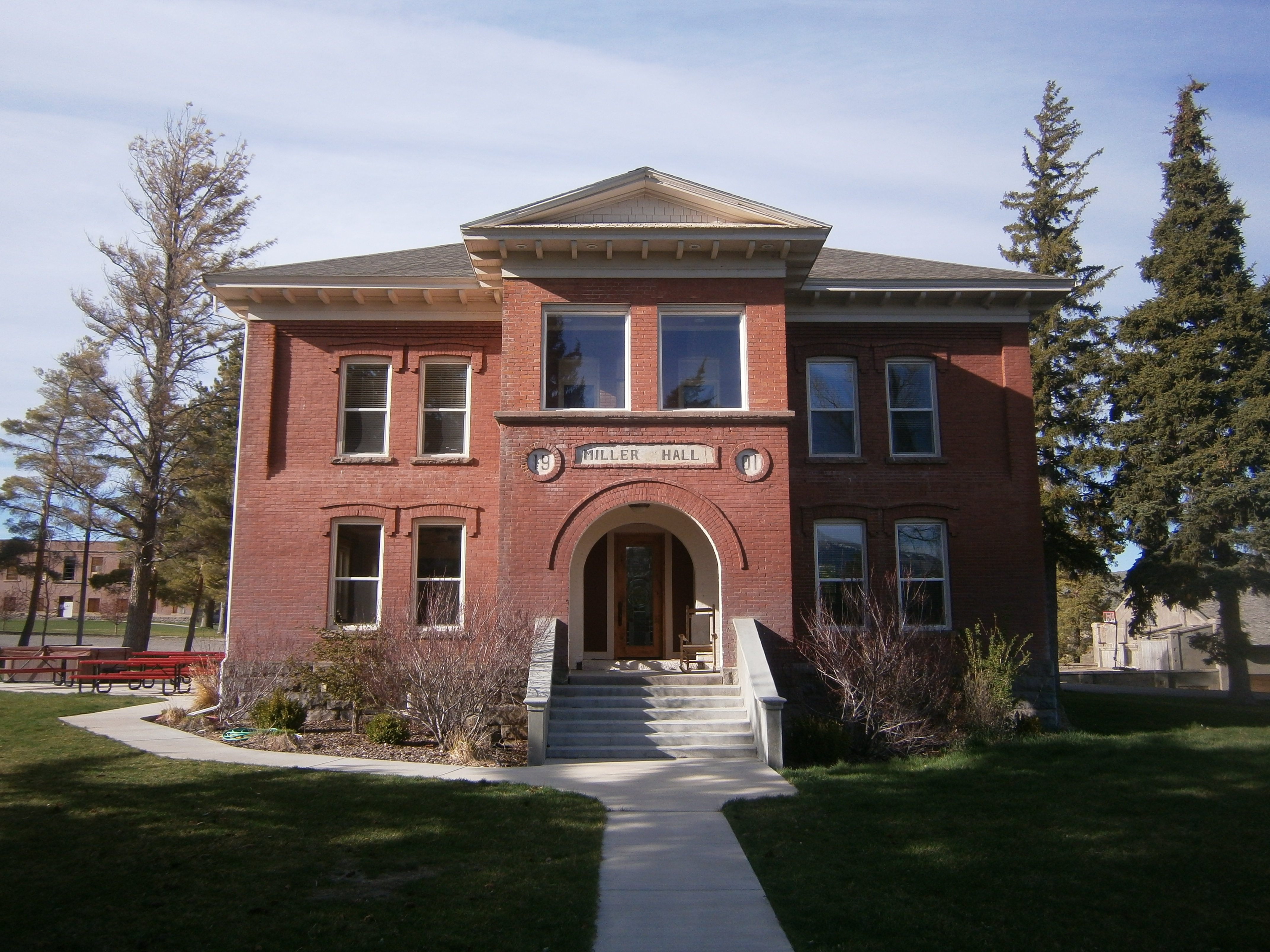 Miller Hall, a historic building on the campus of Albion State Normal School, in Albion, Idaho.